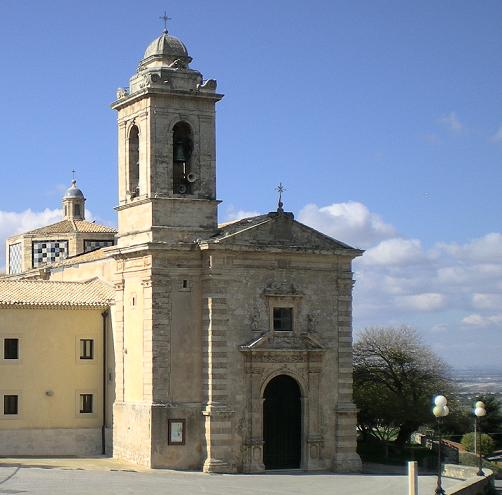 Church of sanctuary of Virgin Mary of Chiaramonte Gulfi in Sicily.